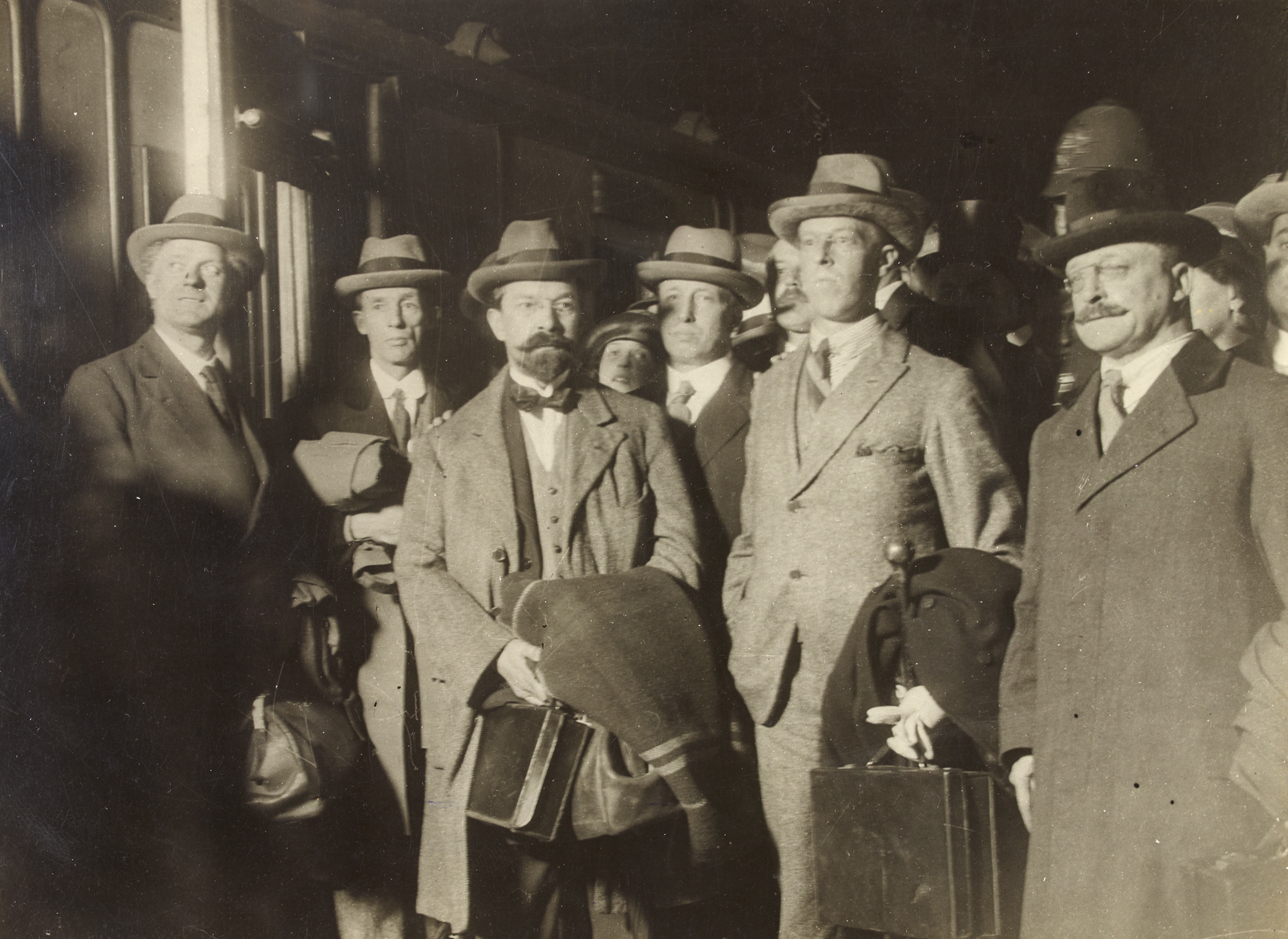 From buildings, monuments and bridges to bridge builders today. Some of the negotiating team sent to London to broker peace with the British Government. That date looks all wrong? The date was indeed wrong! Arthur Griffith had passed away by the stated date (9 December 1922). Late in the day [/photos/gnmcauley/ Niall McAuley] seems to have solved the problem by linking us to the a site which states that the correct date is December 1921. The photo was more than likely taken during the return trip from London - after signing the Anglo Irish Treaty on 6 December 1921. Thank you for all the contributions. Photographer: W. D. Hogan Collection: Hogan Wilson Collection Date: December 1921 NLI Ref.: HOG3 You can also view this image, and many thousands of others, on the NLI’s catalogue at